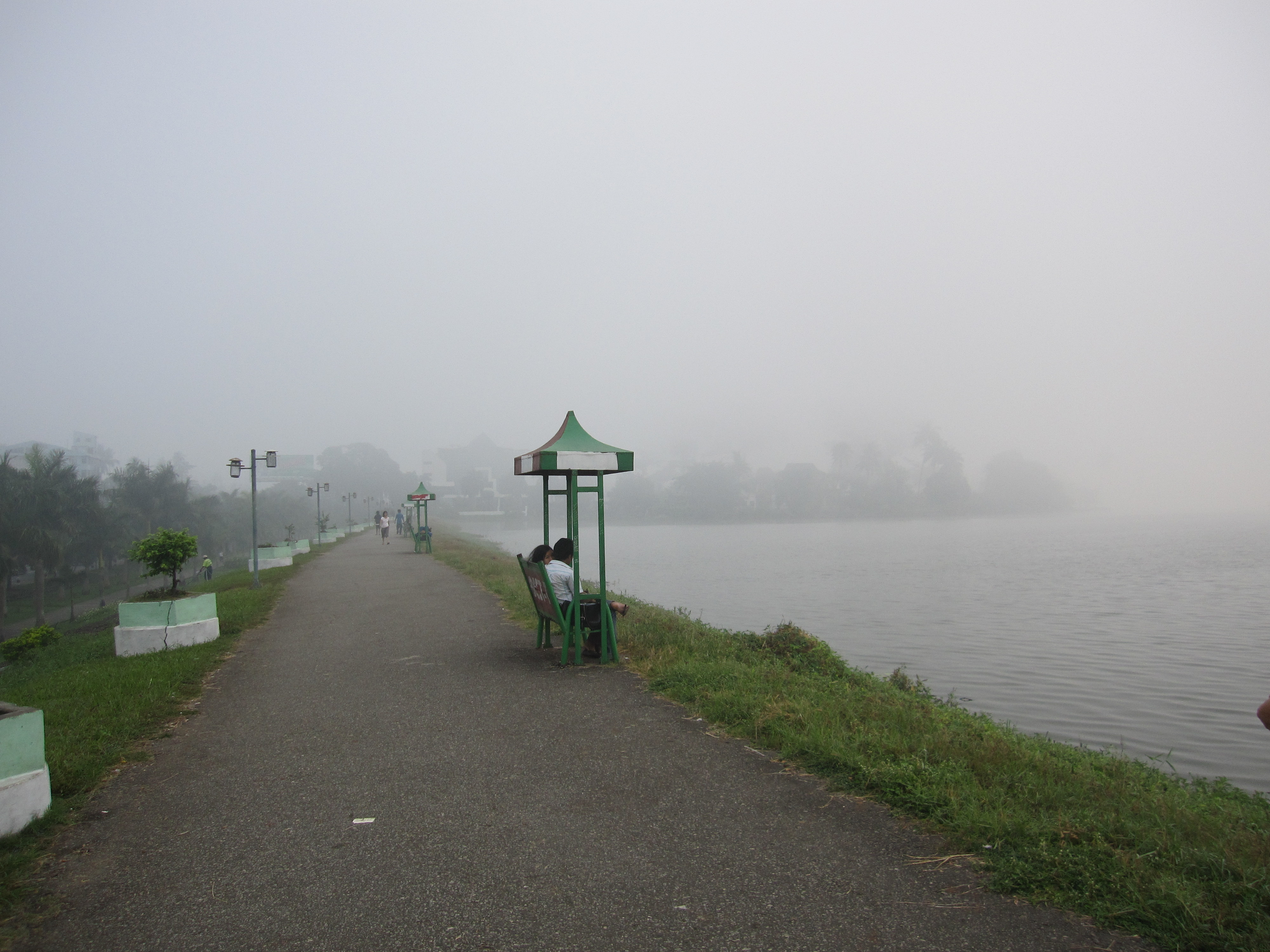 Inya Lake embankment, Yangon, Burma